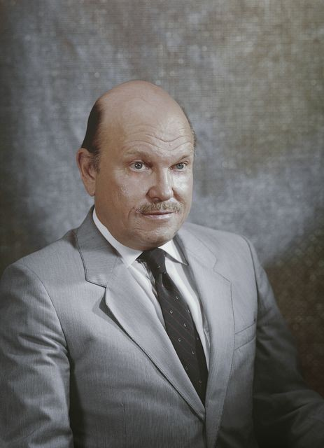 Photograph of the Finnish physician Esko Nikkilä (1926–1986).